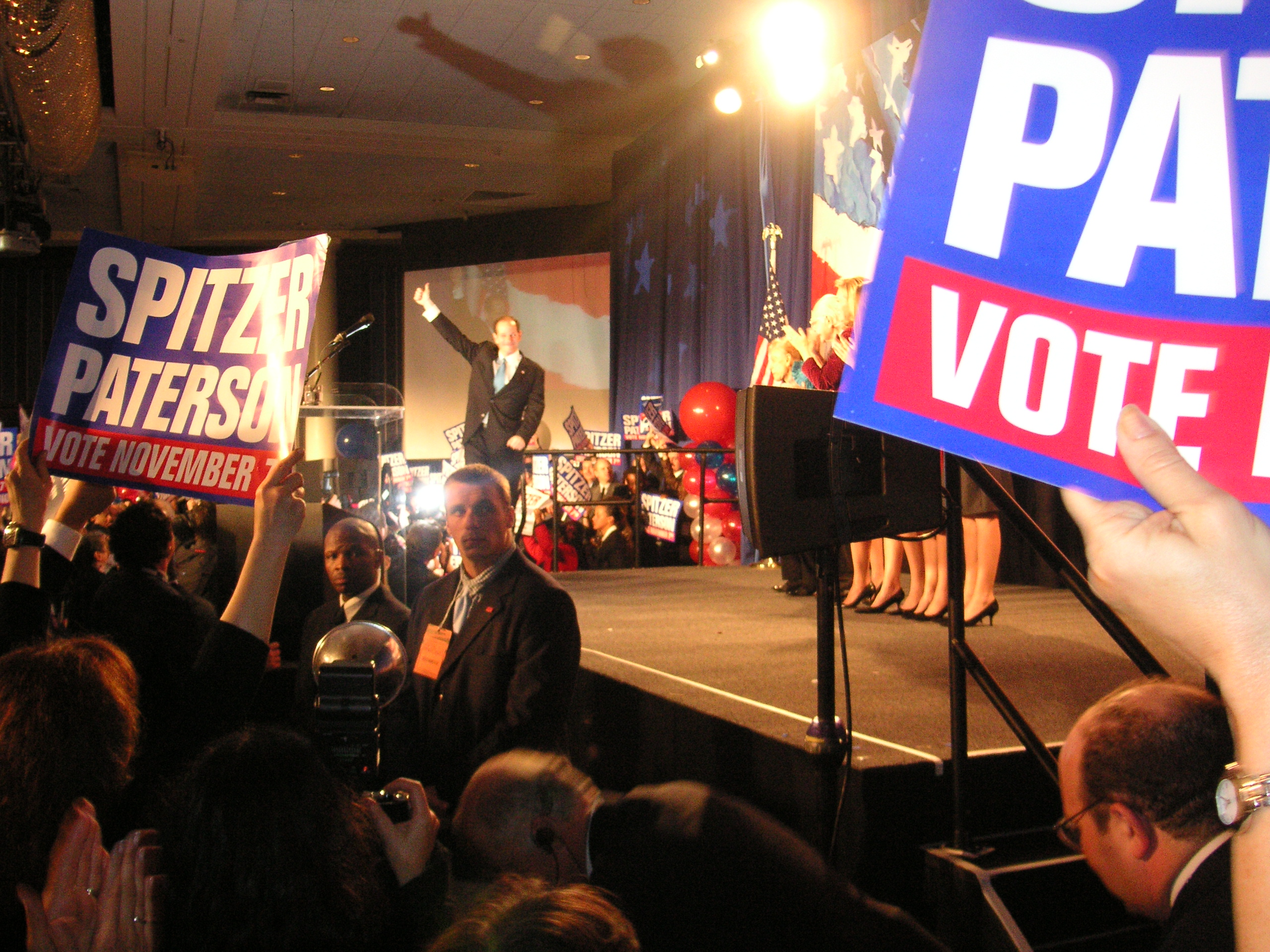 Governor-elect on the stage